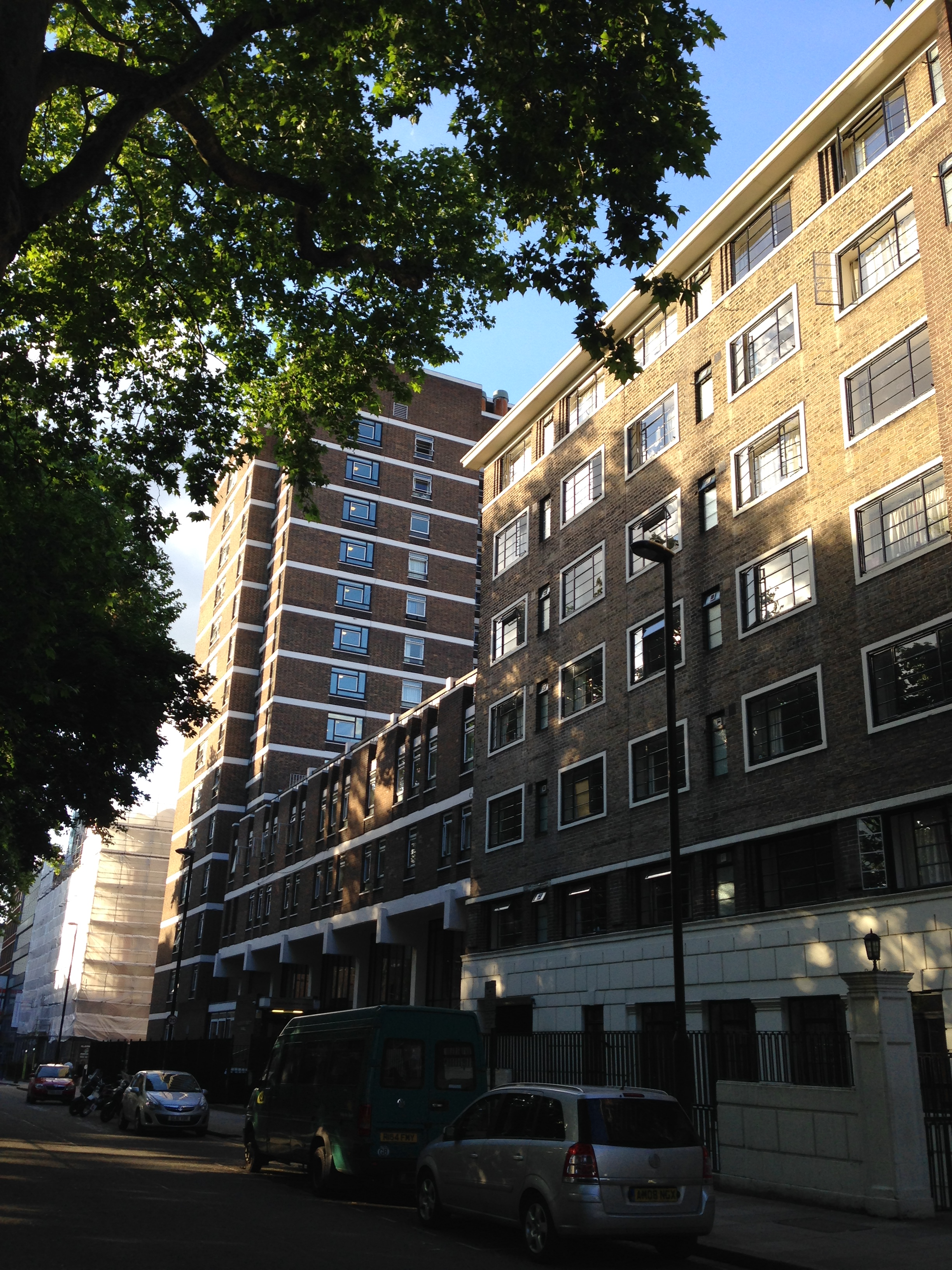 Photograph of Hughes Parry Hall, University of London. Taken June 2014 shortly before work to demolish the smaller portion of the building began.